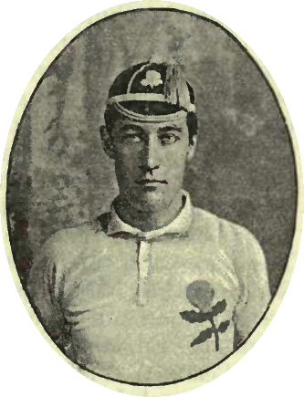 A picture of Frederic Alderson, former captain of the England rugby union team.